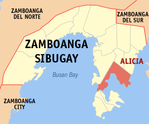 Map of the Zamboanga Sibugay showing the location of Alicia